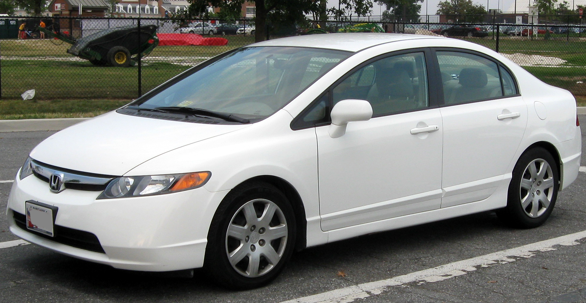 2006-2008 Honda Civic photographed in College Park, Maryland, USA.